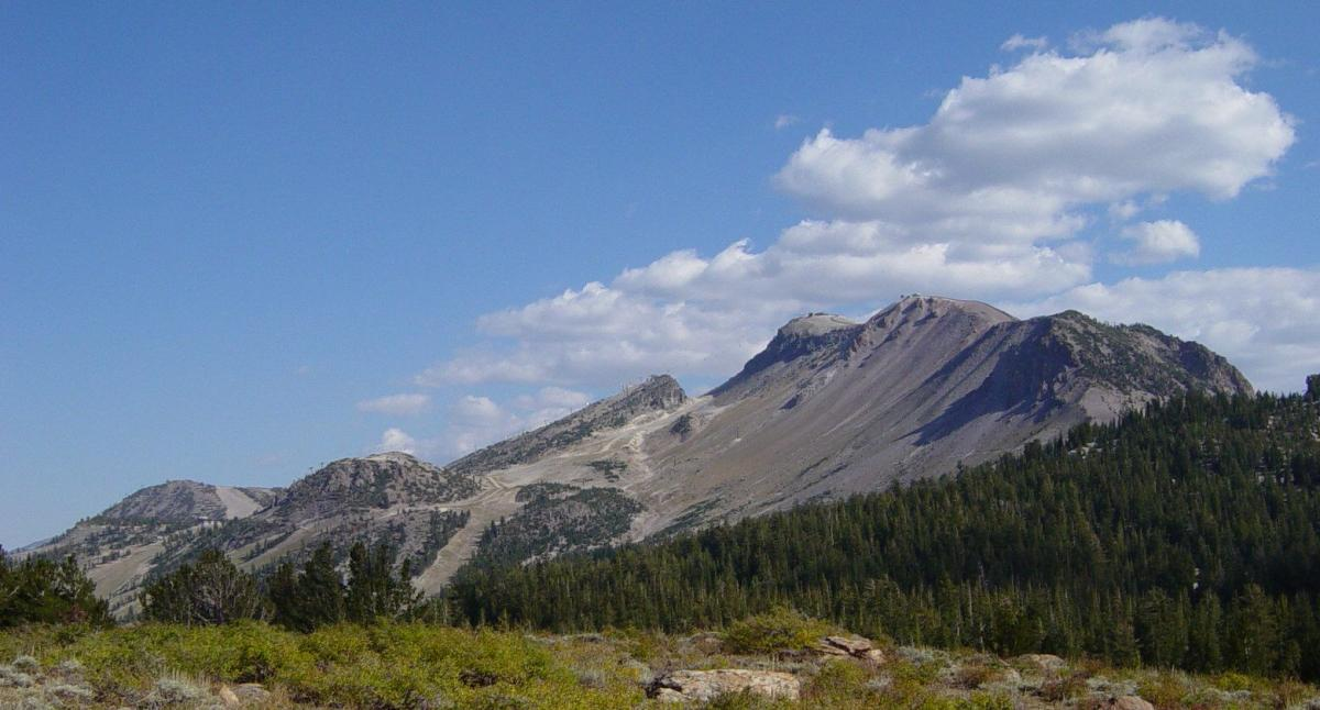 Mammoth Mountain Ski Area in summer.